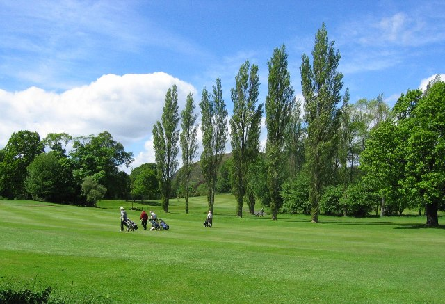 Duddingston Golf Club. The grounds of Duddingston House take up much of the square. They are now used as a rather sequestered golf course.